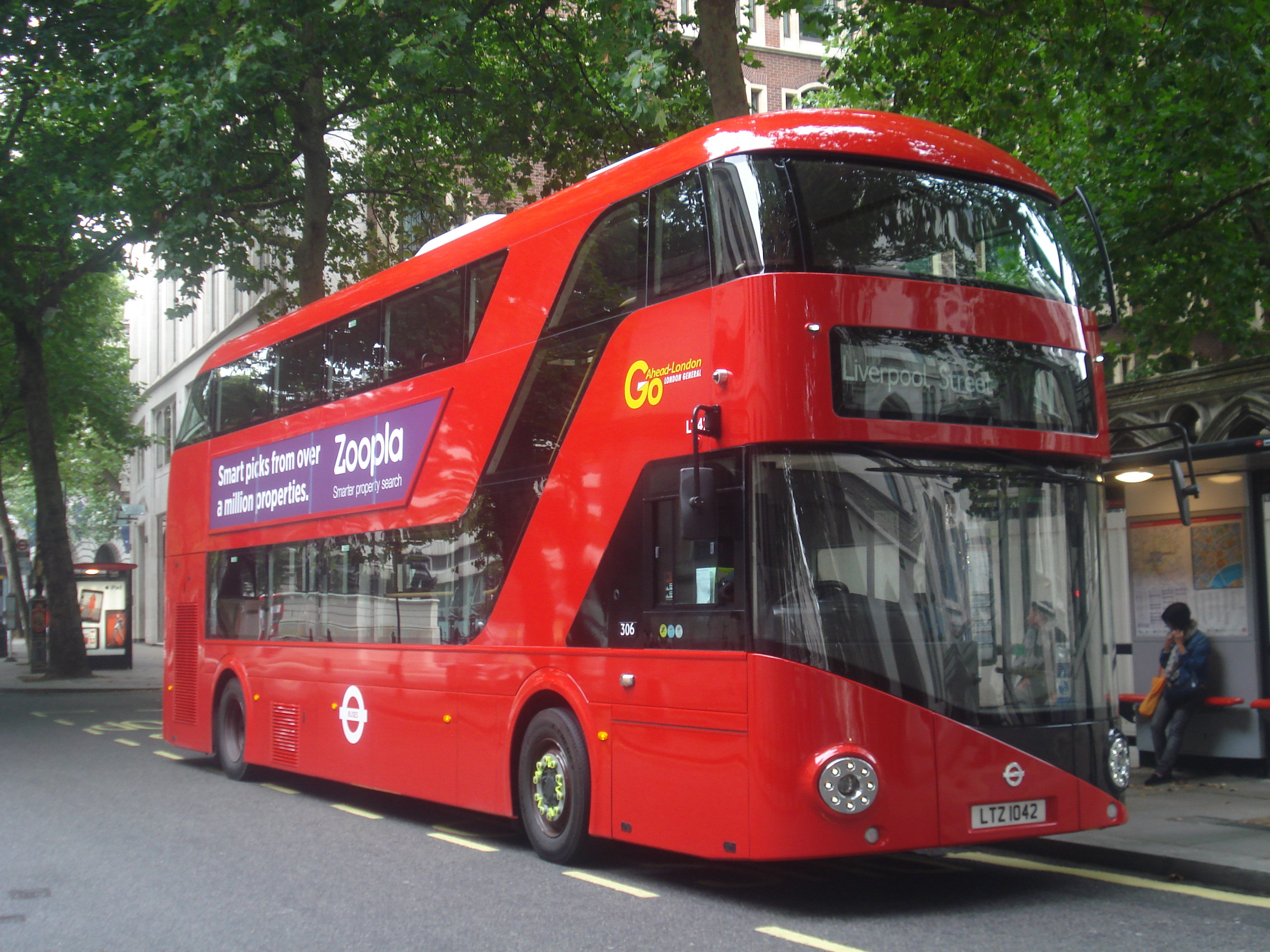 The right headlamp broke, meaning the bus went out of service here. It was the first crewed 11 from Fulham Broadway.